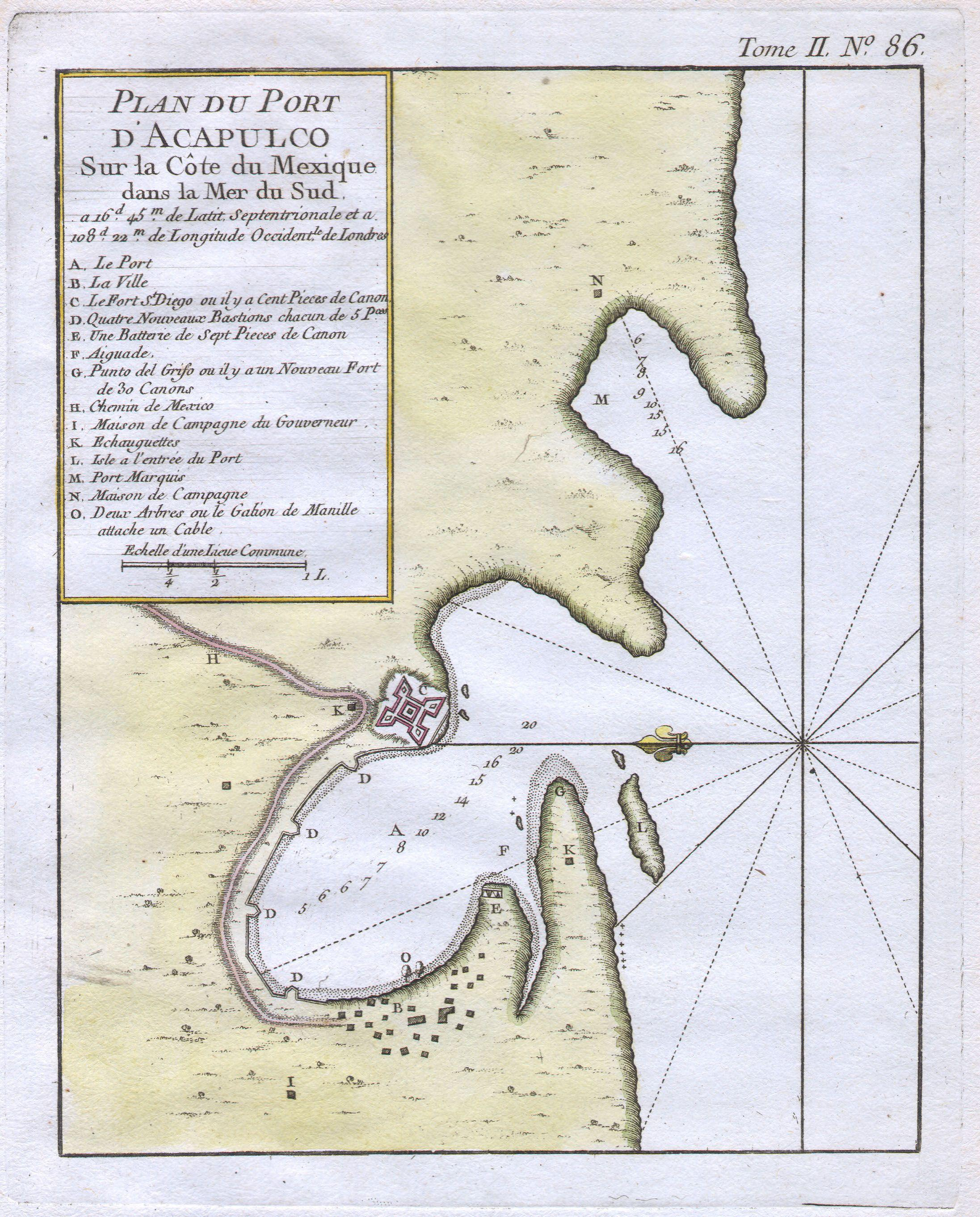 This beautiful little map of the city and port of Acapulco, Mexico was produced by the French Cartographer Jacques-Nicolas Bellin in 1760. Includes some buildings, the fort, and depth soundings.